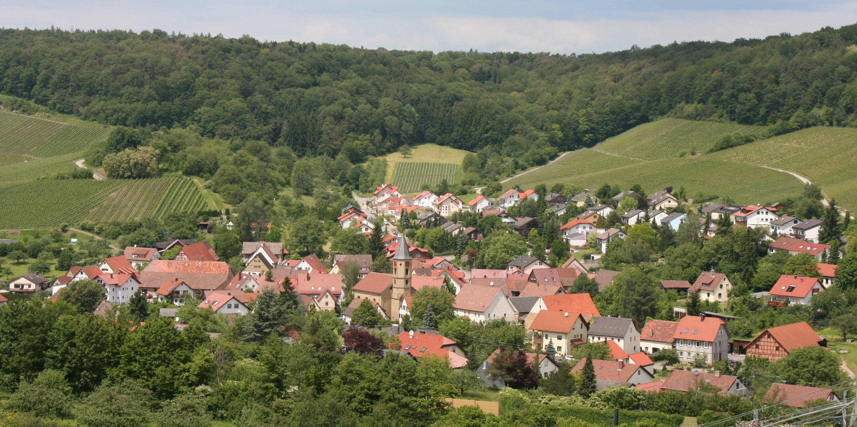 Weinsberg-Wimmental photographed from the South-East